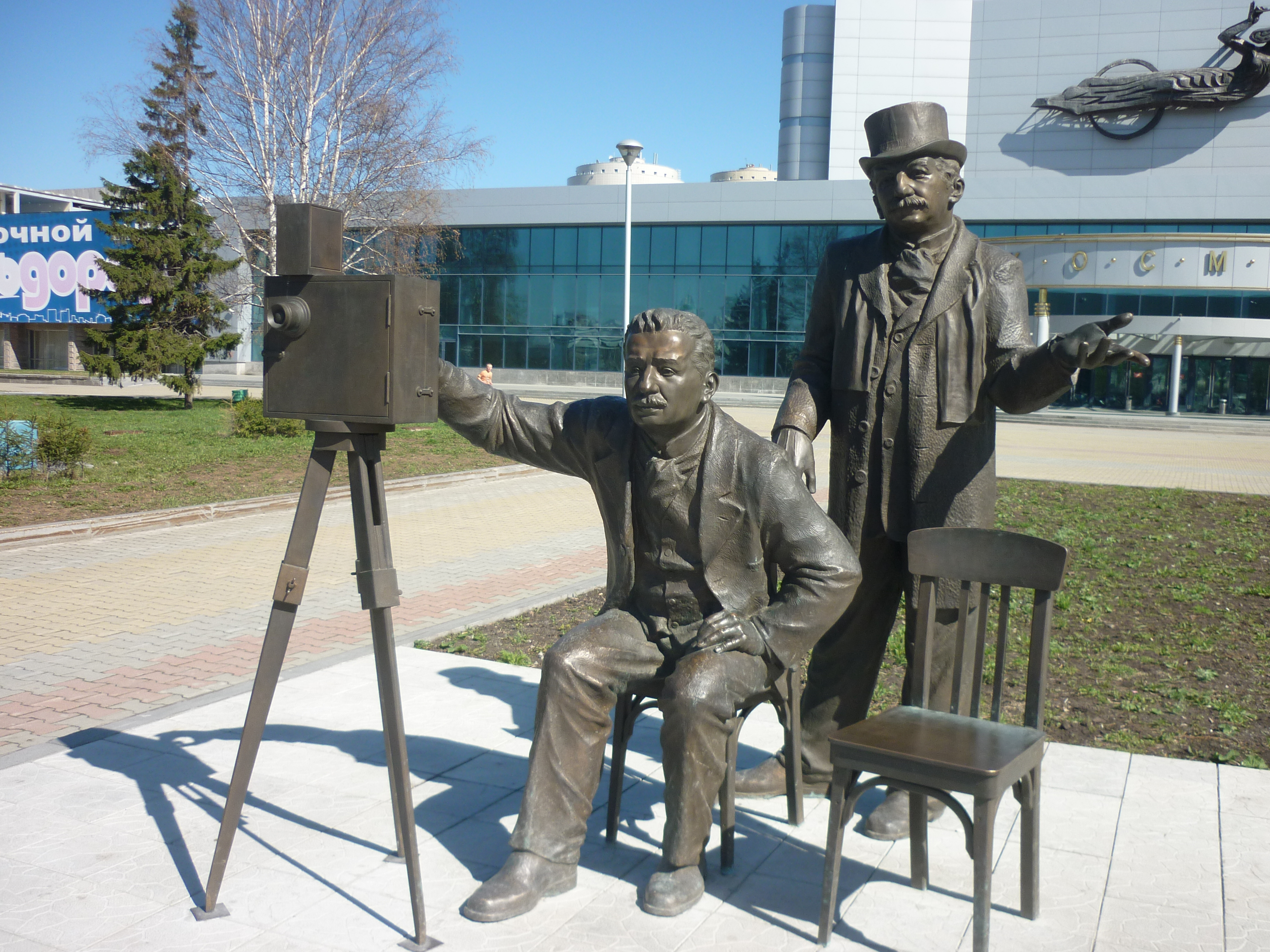 Lumiere brothers, a monument in Yekaterinburg, Russia.